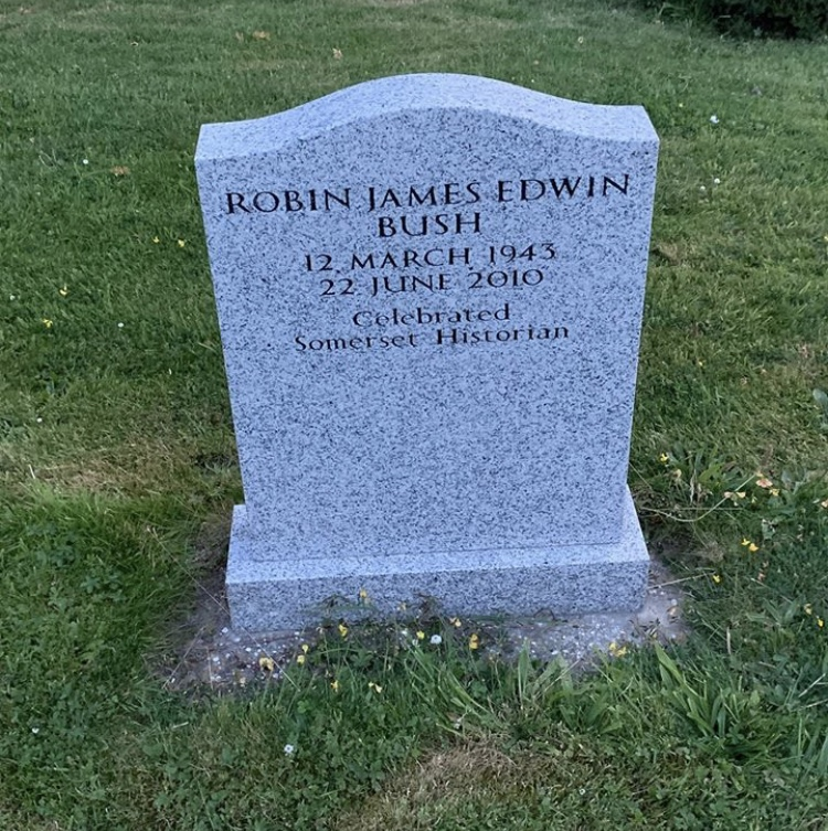 The grave of historian and tv presenter Robin Bush (1943-2010) at Corfe in Somerset